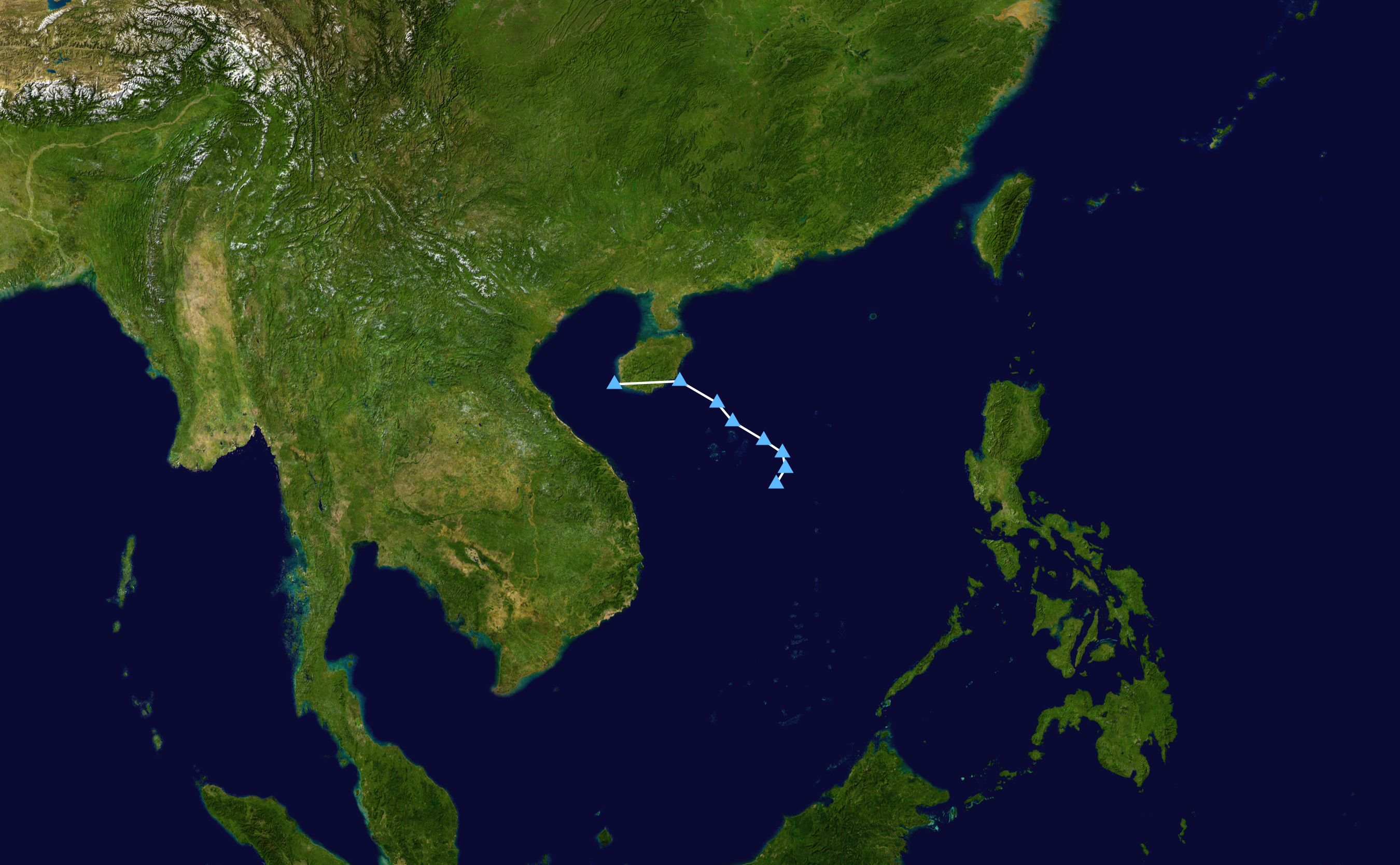 Track map of the 28th tropical depression of the 2019 Pacific typhoon season. The points show the location of the storm at 6-hour intervals. The colour represents the storm's maximum sustained wind speeds as classified in the Saffir–Simpson scale (see below), and the shape of the data points represent the nature of the storm, according to the legend below. Saffir–Simpson scale Tropical depression≤38 mph≤62 km/h Category 3111–129 mph178–208 km/h Tropical storm39–73 mph63–118 km/h Category 4130–156 mph209–251 km/h Category 174–95 mph119–153 km/h Category 5≥157 mph≥252 km/h Category 296–110 mph154–177 km/h Unknown Storm type Tropical cyclone Subtropical cyclone Extratropical cyclone / Remnant low / Tropical disturbance / Monsoon depression